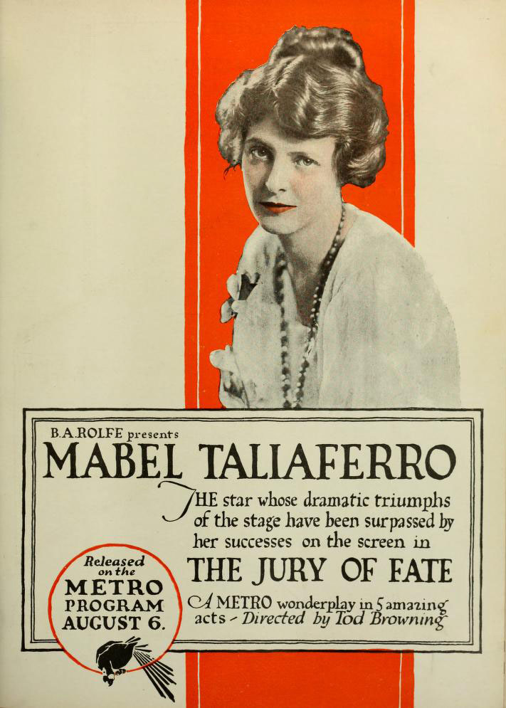 Advertisement in Moving Picture World, August 1917 for the film The Jury of Fate (1917).